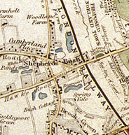 Map of Shepherd's Bush c1841